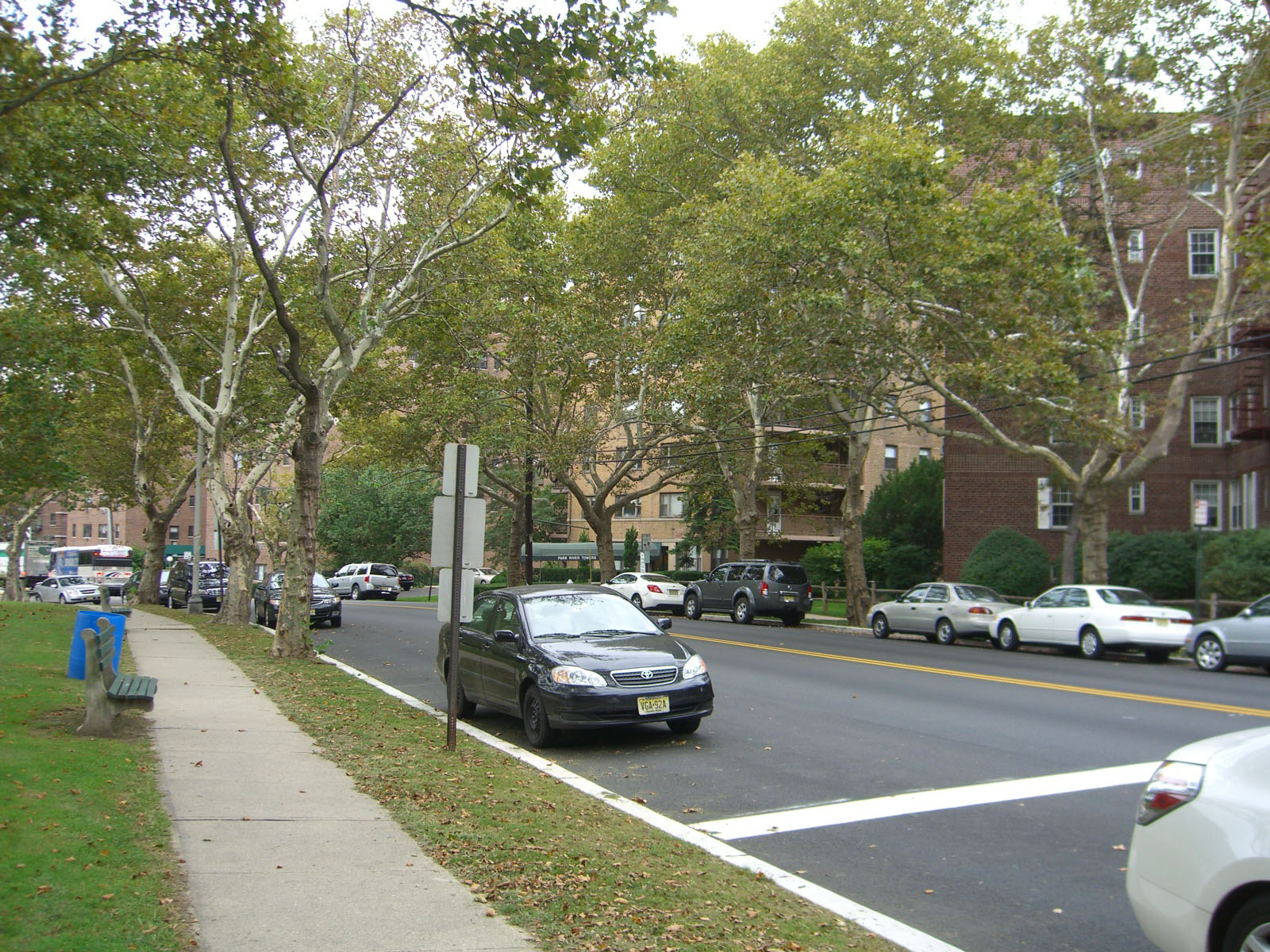 The Woodcliff neighborhood of North Bergen, New Jersey, taken on Boulevard East. At left is the eastern edge of James J. Braddock North Hudson Park.